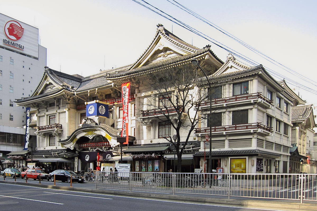 Kabuki-za theator in Ginza, Tokyo.